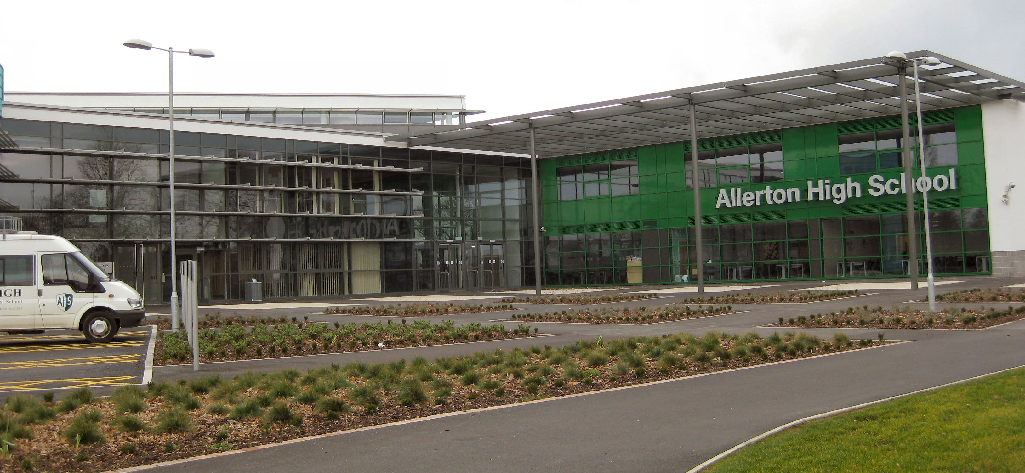 Allerton High School, King Lane, Leeds LS17 7AG. New buildings opened November 2008